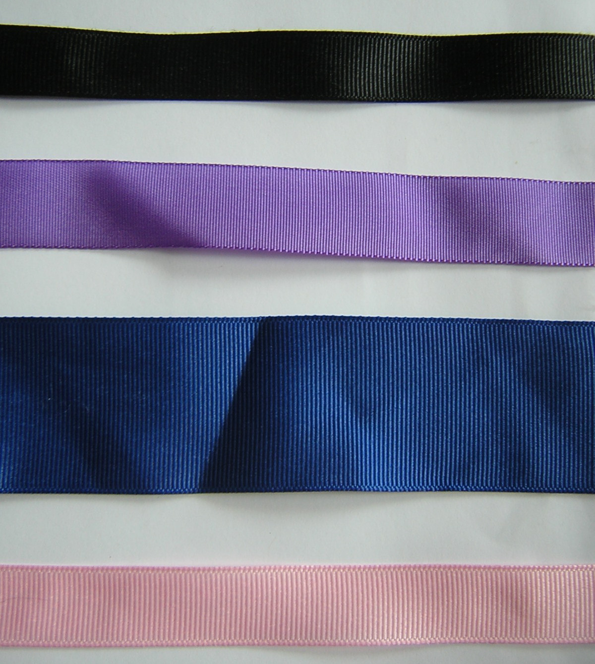 A picture of four different grosgrain ribbons